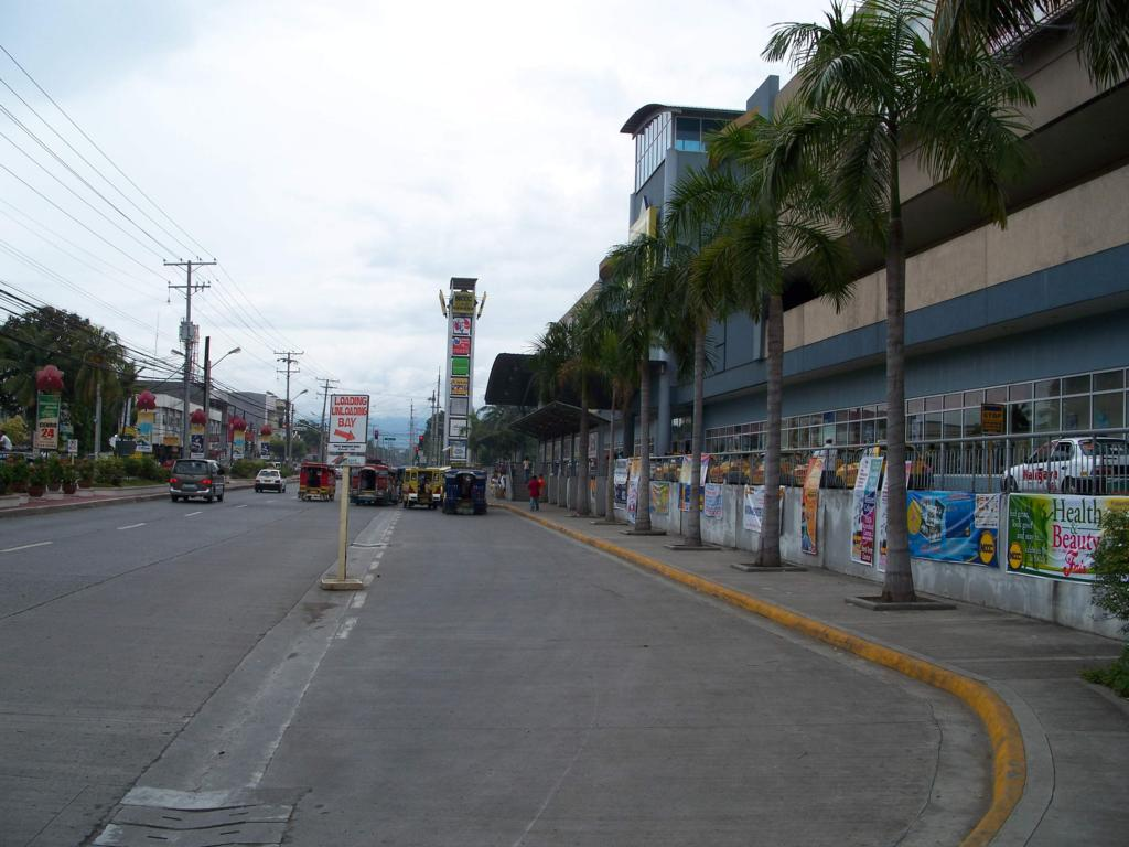 NCCC Mall at MacArthur Highway in Matina, Davao City